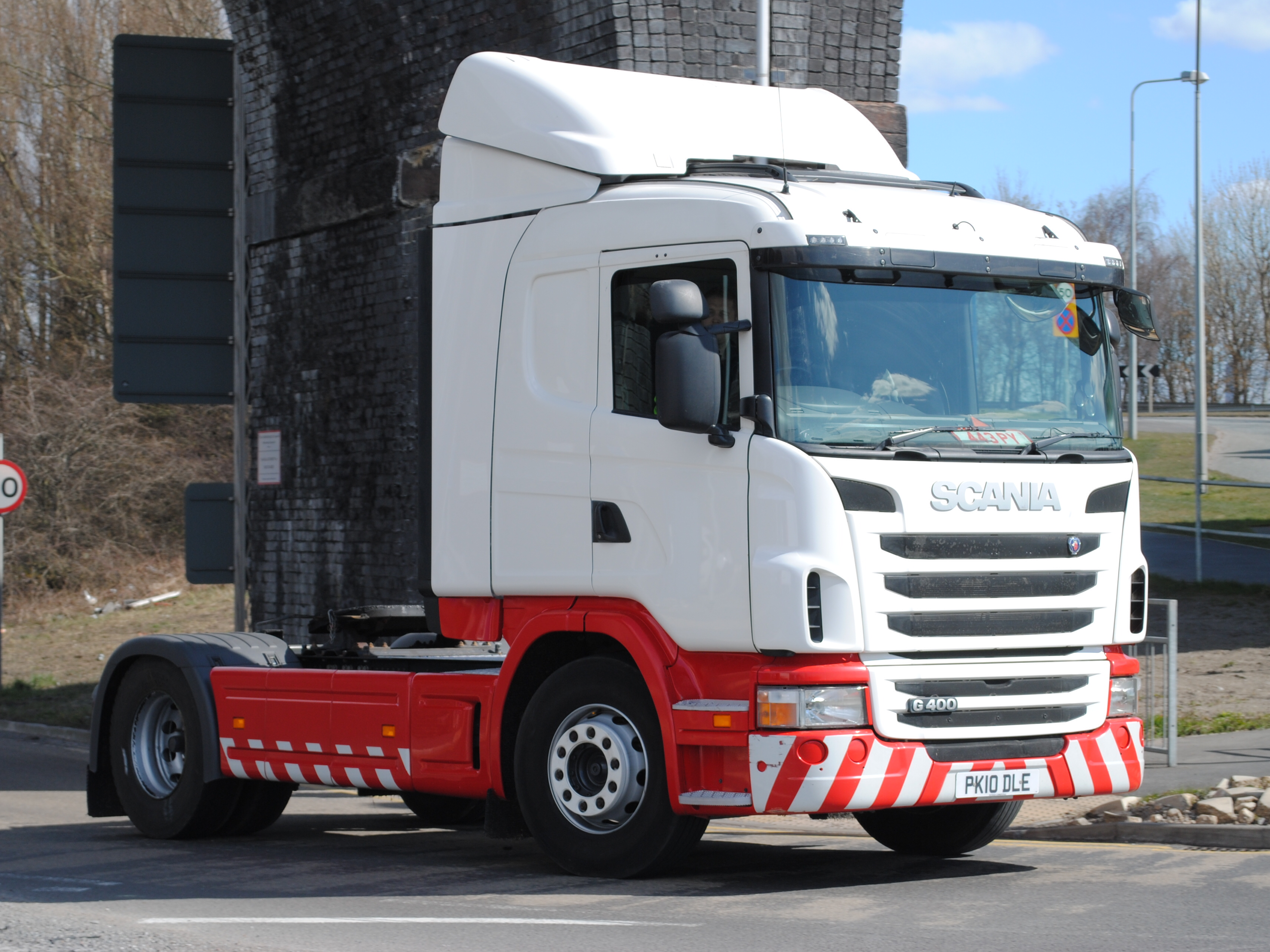 Scania G400 (L7311 Margery Elizabeth). seen here in Widnes